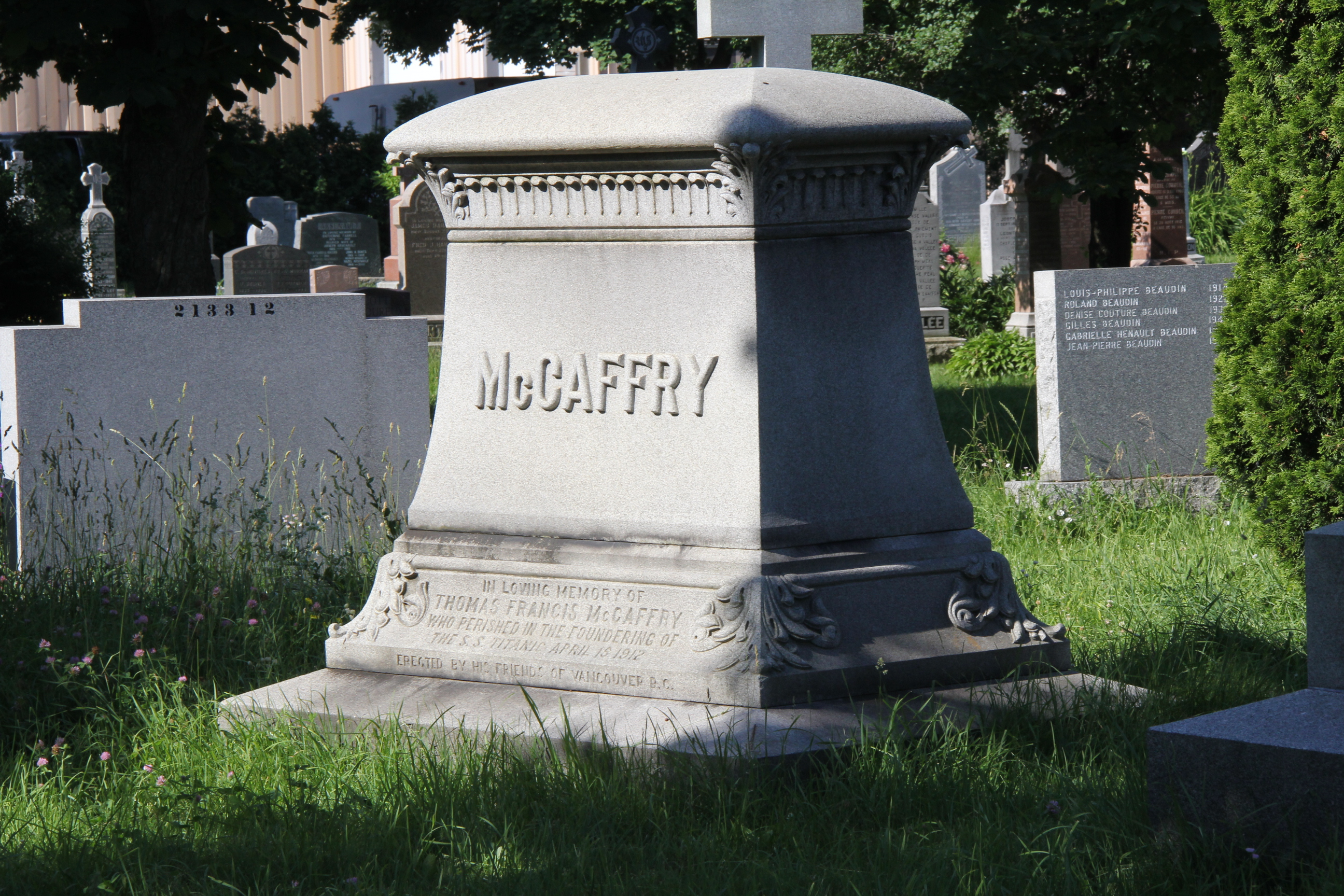 Thomas-Francis McCaffry’s tombstone, Notre-Dame-des-Neiges Cemetery (B2139), Montreal. Titanic survivor, President of Vancouver Union Bank.